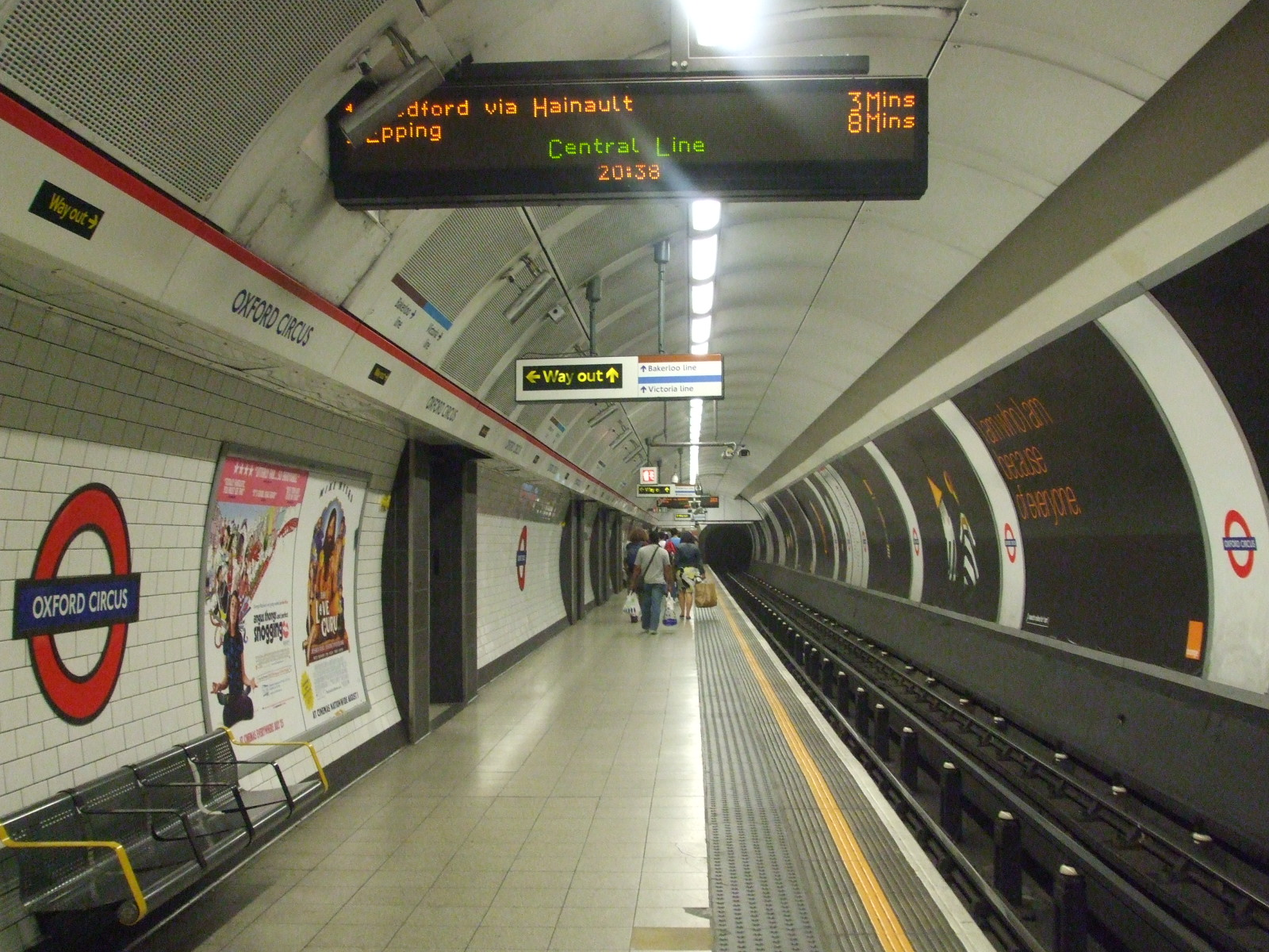 Oxford Circus tube station Central line eastbound platform looking west